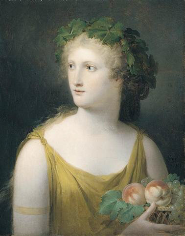 Portrait of a lady wearing a yellow dress and holding a basket